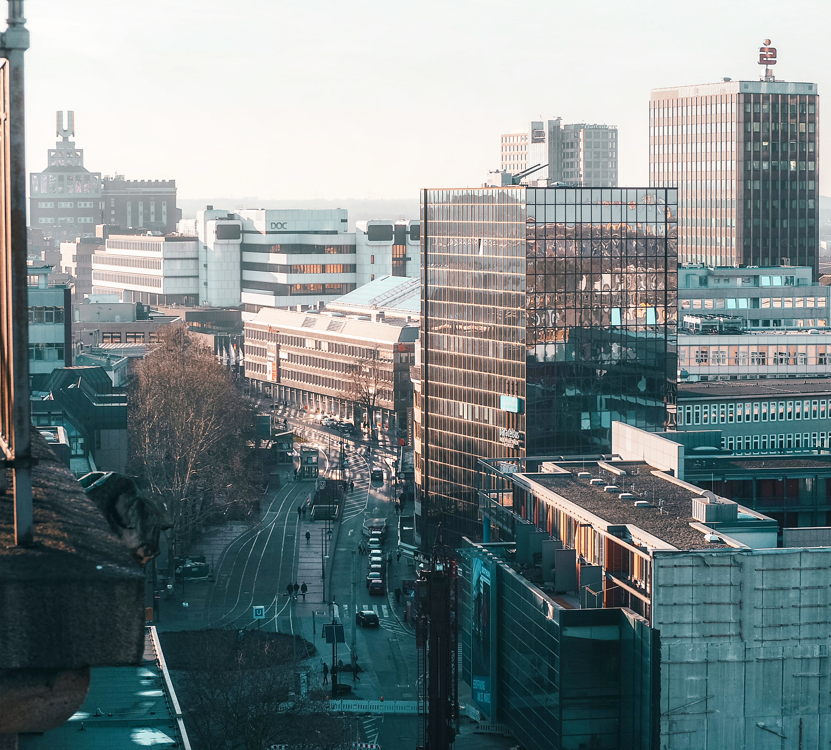 Boulevard Kampstraße Dortmund-City